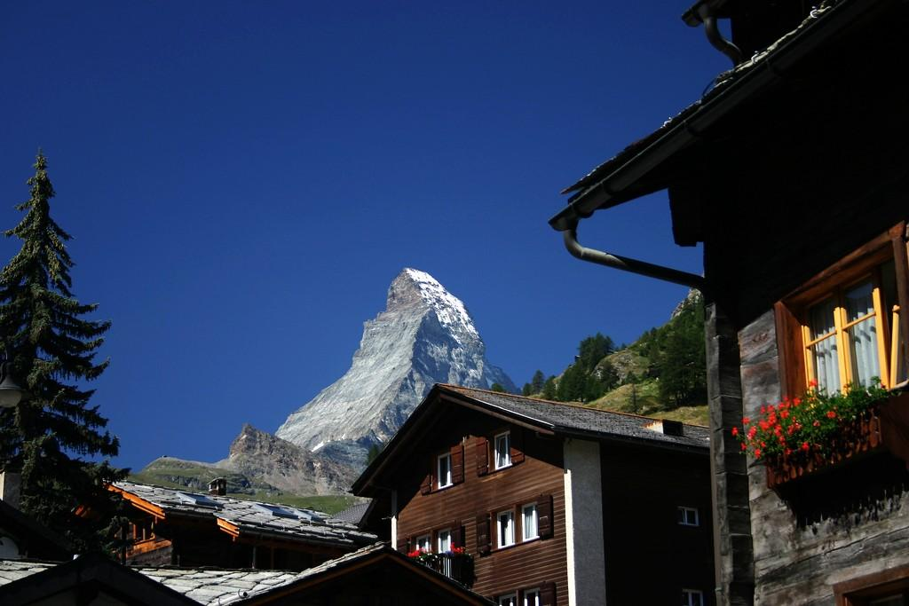 View from the village of Zermatt.